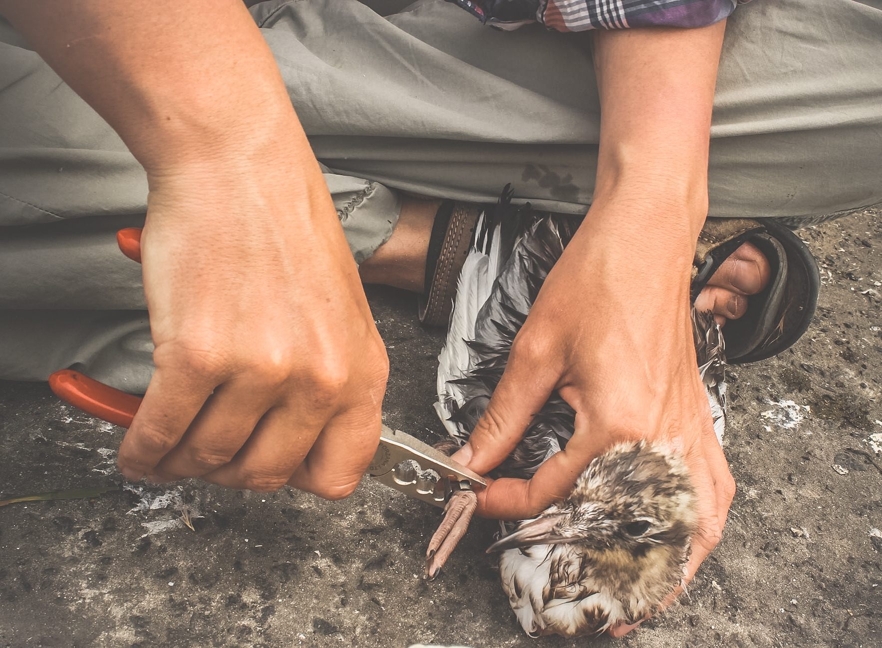 Ringing of black-headed gull Chroicocephalus ridibundus (Linnaeus, 1766) (Laridae) nestling. Сertified ornithologist, research fellow of The I.I. Schmalhausen Institute of Zoology of National Academy of Sciences of Ukraine is installing the ring of the leg of the nestling. Birds’ ringing is widely used to track the migration pathways and other ecological features of the species. Locality: Kaniv water reserve, Kyiv region, Tripillya environs, Ukraine.